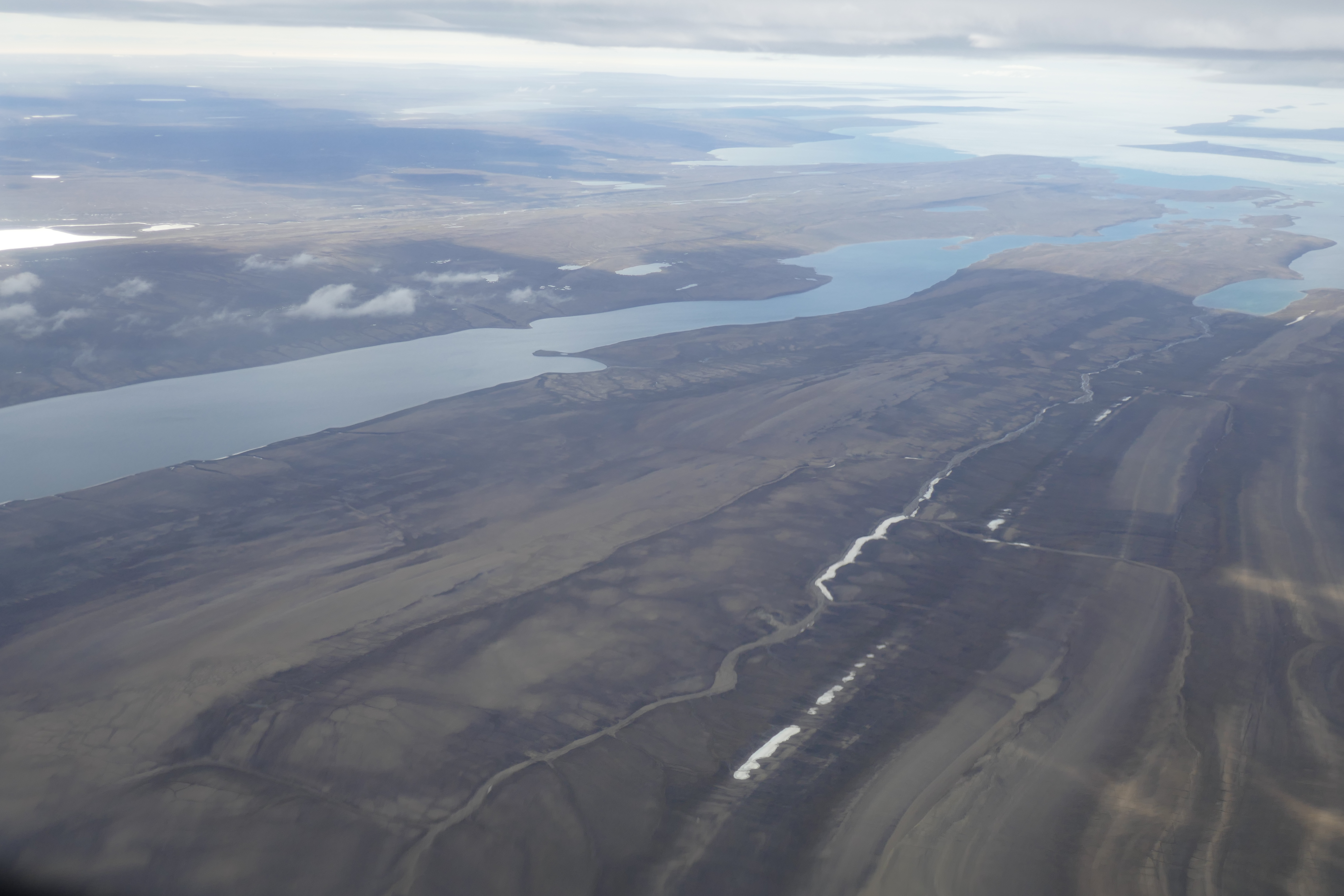 looking west, south Bathurst Island, Bathurst Island, Nunavut, Canada - July 2016